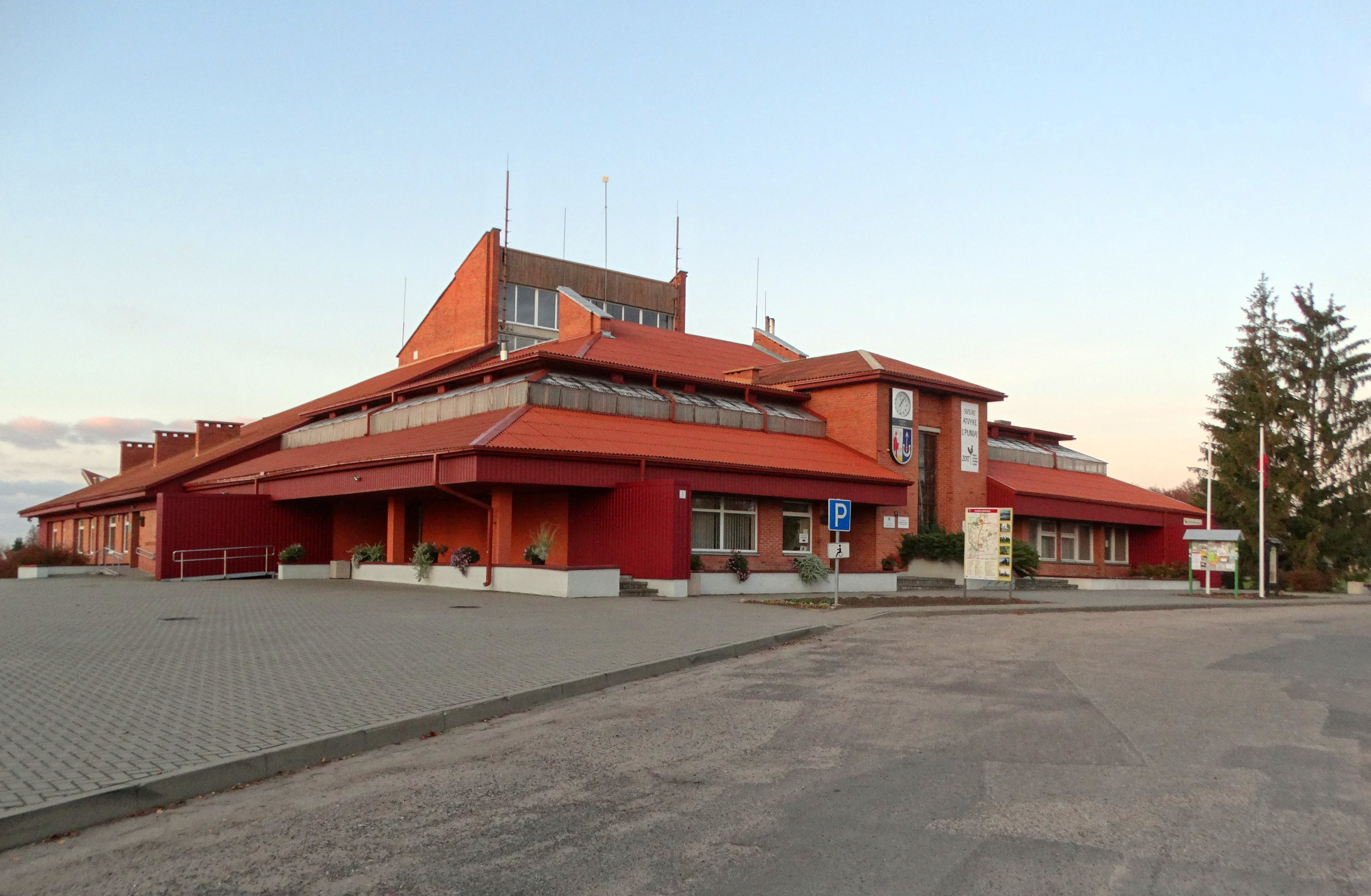 Punia, Alytus district, Lithuania